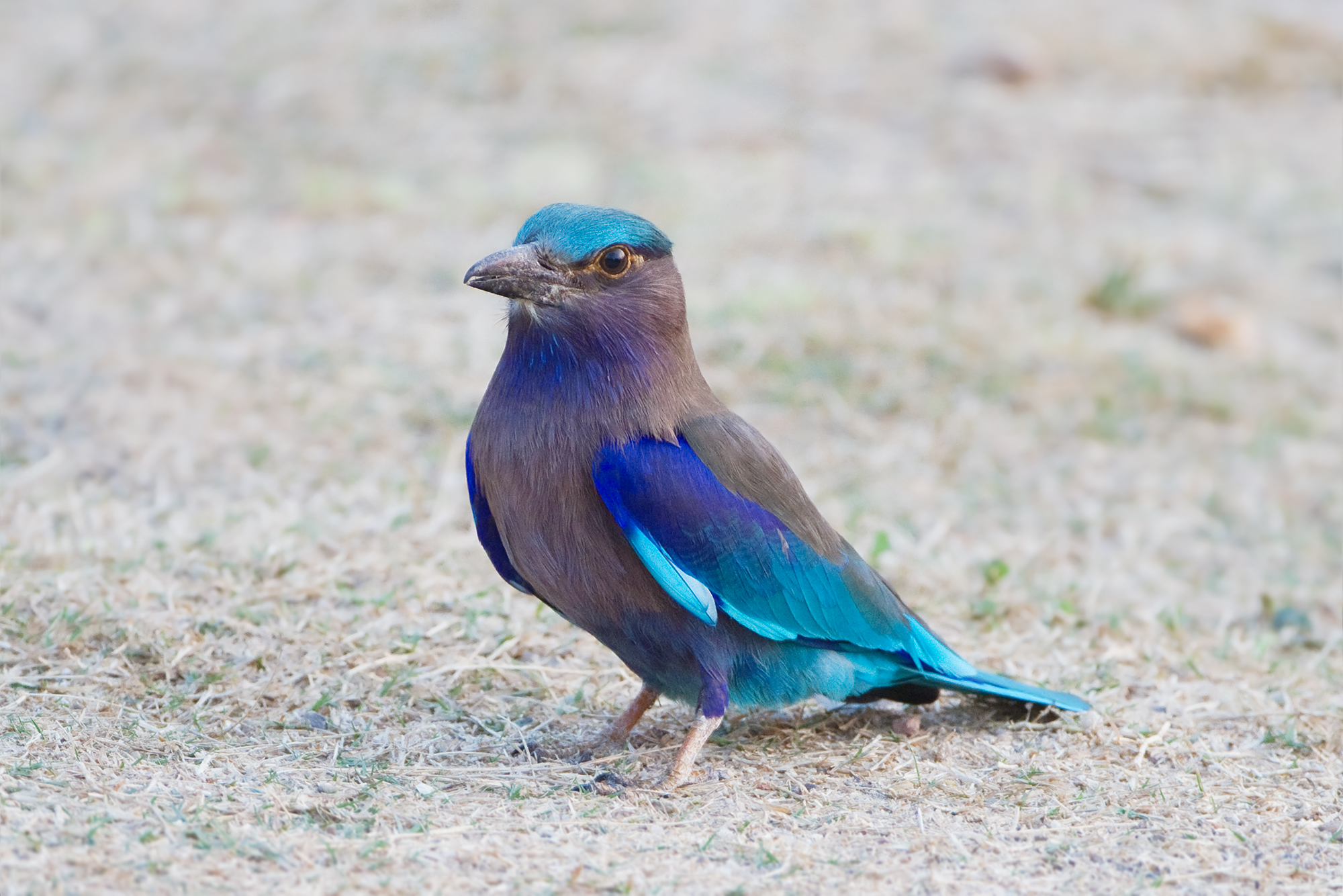 Indochinese Roller Coracias affinis, Song Phi Nong, Kaeng Krachan, Phetchaburi, Thailand